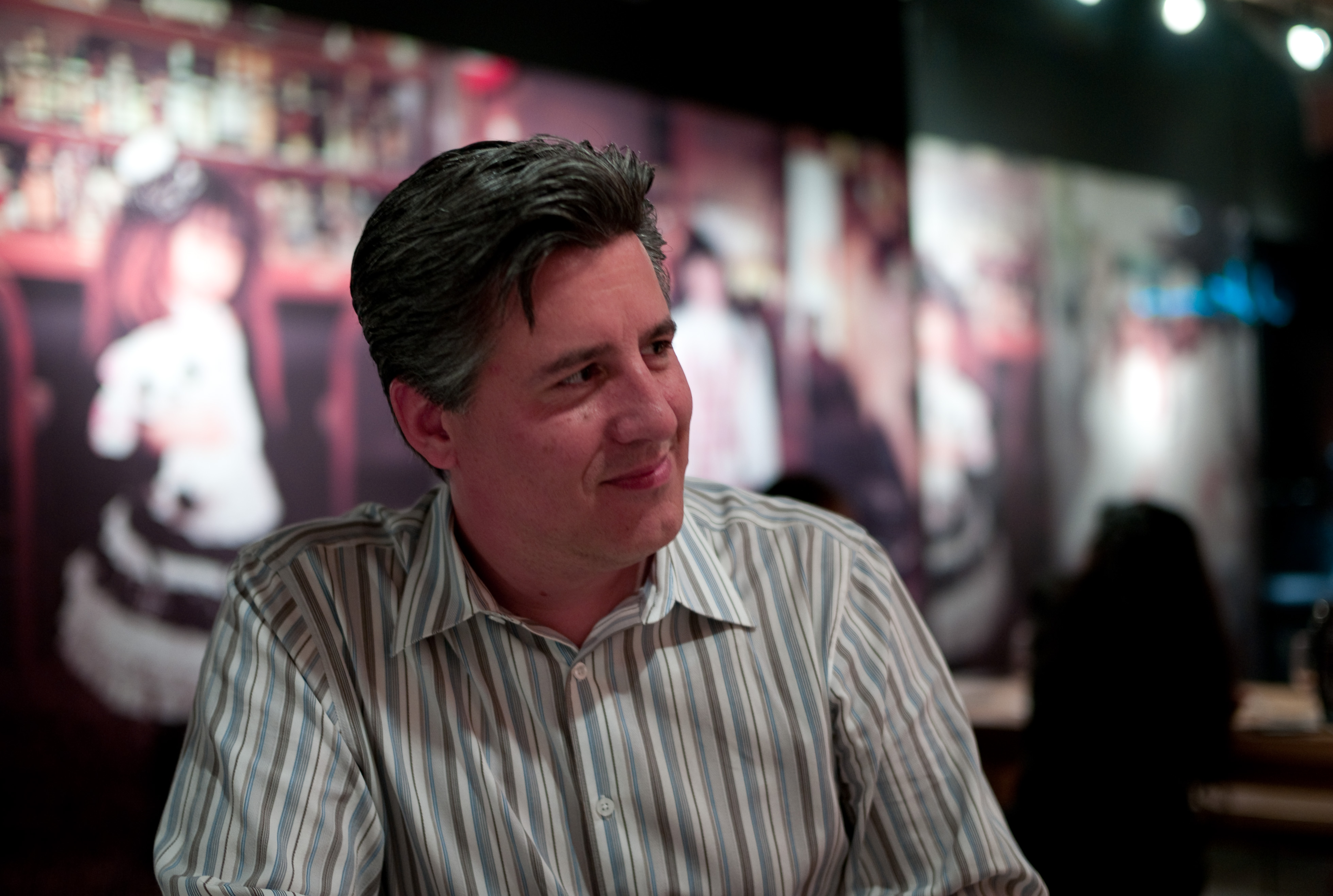 Daniel Suarez author of The Daemon [1]